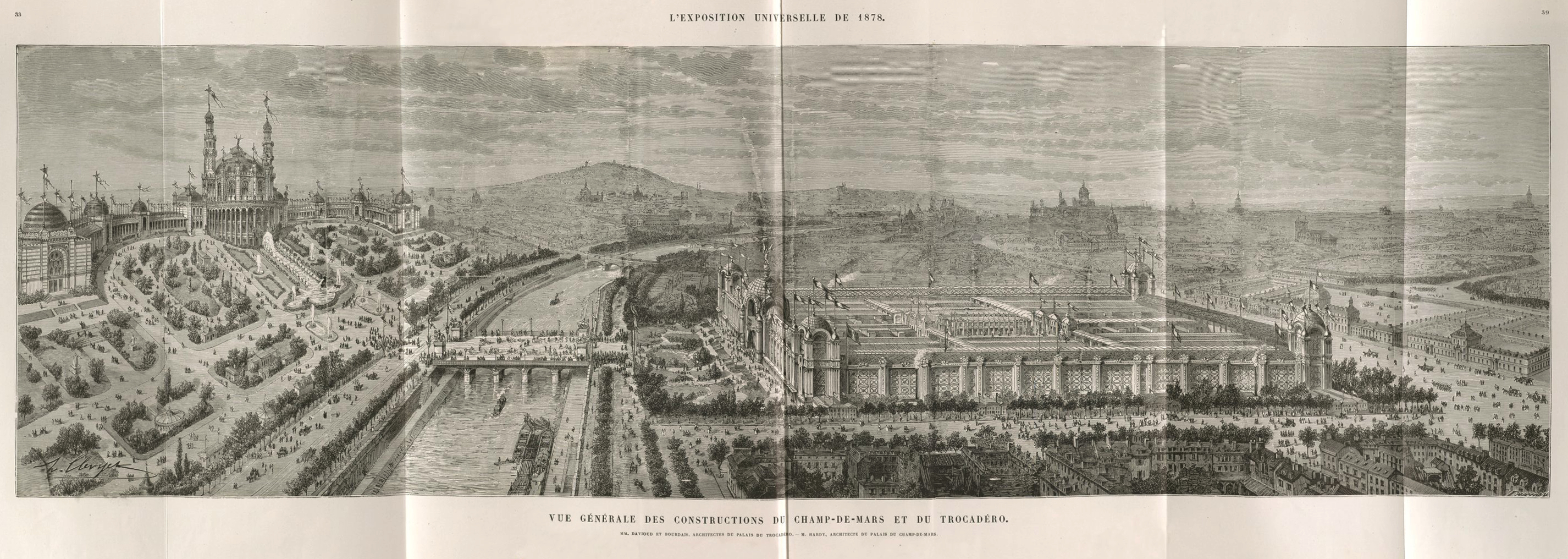 Panoramic view of the 1878 World Fair site in Paris. Left of the image stands the Trocadéro palace, which had been designed specifically for the fair by the architects Davioud and Bourdais. The building had three parts: the monumental central rotunda served as a reception hall and concert hall which could contain about 5000 people. Two galleries on each side went from the rotunda to the outside of the building, and were inspired by St Peter's Piazza in Rome. The Palais was eventually damaged by a fire in 1935, and does not exist anymore today. On the other bank of the Seine River stands the "palais du Champ-de-Mars, which had also been built for the occasion, but which would be destroyed soon after the Fair. In 1889, the Eiffel Tower would be built on that site.